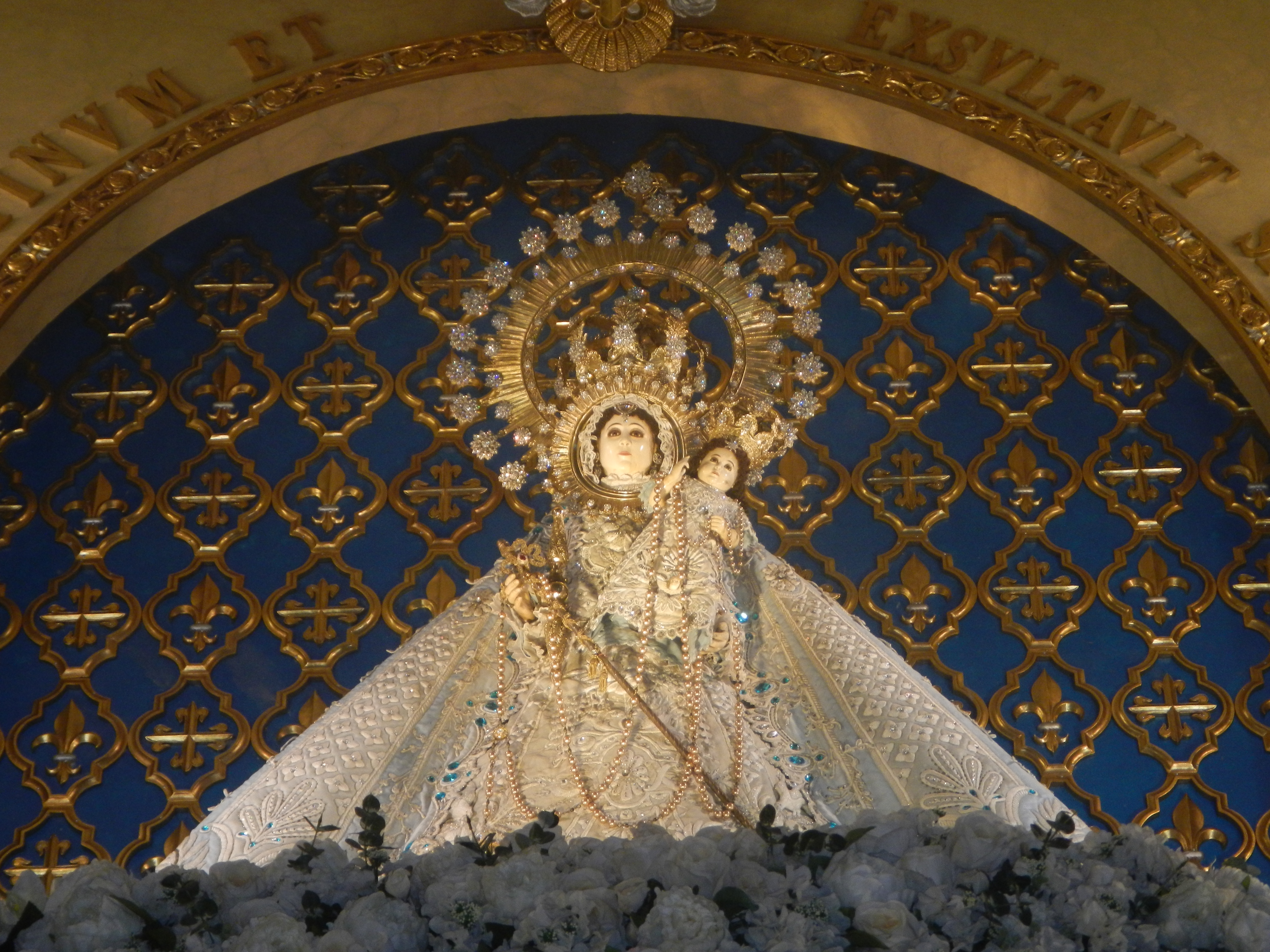 National Shrine of Our Lady of the Holy Rosary of La Naval de Manila; Quezon Avenue Santuario de Santo Domingo Columbarium, "Pahalik" & Left side altar of the Statue of Our Lady of the Holy Rosary of La Naval de Manila, Courtyard and Halfway, Galo_Ocampo's stained class windows, Perpetual Adoration Chapel, Convent, Parish Office, Rectory & Formation Center, San Pio V Dominican Center of Institutional Studies & Preaching, Museo de Santo Domingo, Santo Domingo Church Compound Santo Domingo Church beside the Angelicum College located in the Legislative districts of Quezon City District 6, Barangays of Quezon City Barangays Santo Domingo beside Barangays Manresa and Siena, San Francisco del Monte, beside Masambong, Quezon City (Note: Judge Florentino Floro, the owner, to repeat, Donor Florentino Floro of all these photos hereby donate gratuitously, freely and unconditionally all these photos to and for Wikimedia Commons, exclusively, for public use of the public domain, and again without any condition whatsoever).